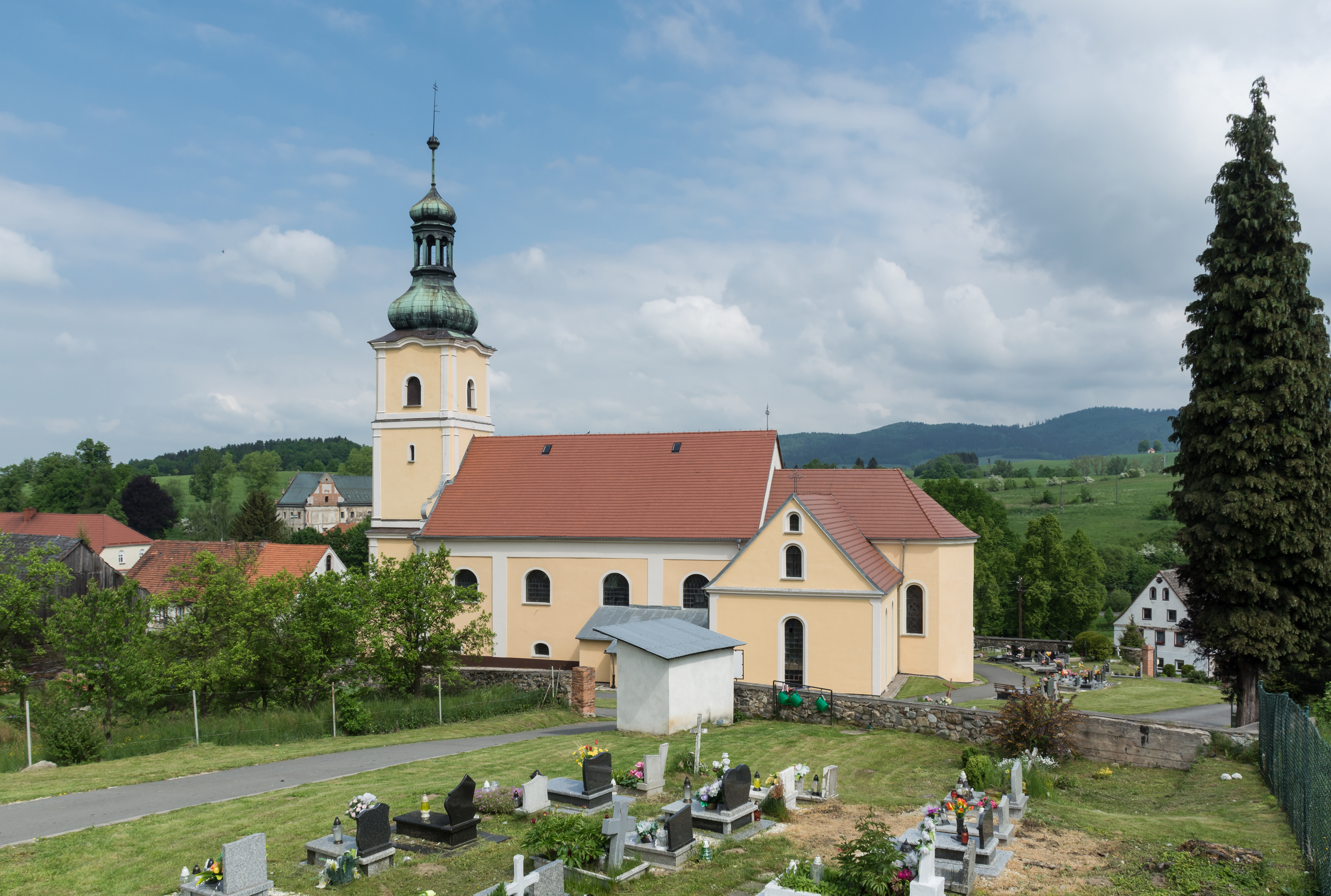 Saint Nicholas church in Jaszkowa Górna